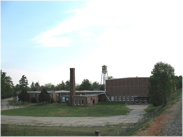 A photo of the Sterling Cotton Mill in Franklinton, North Carolina.